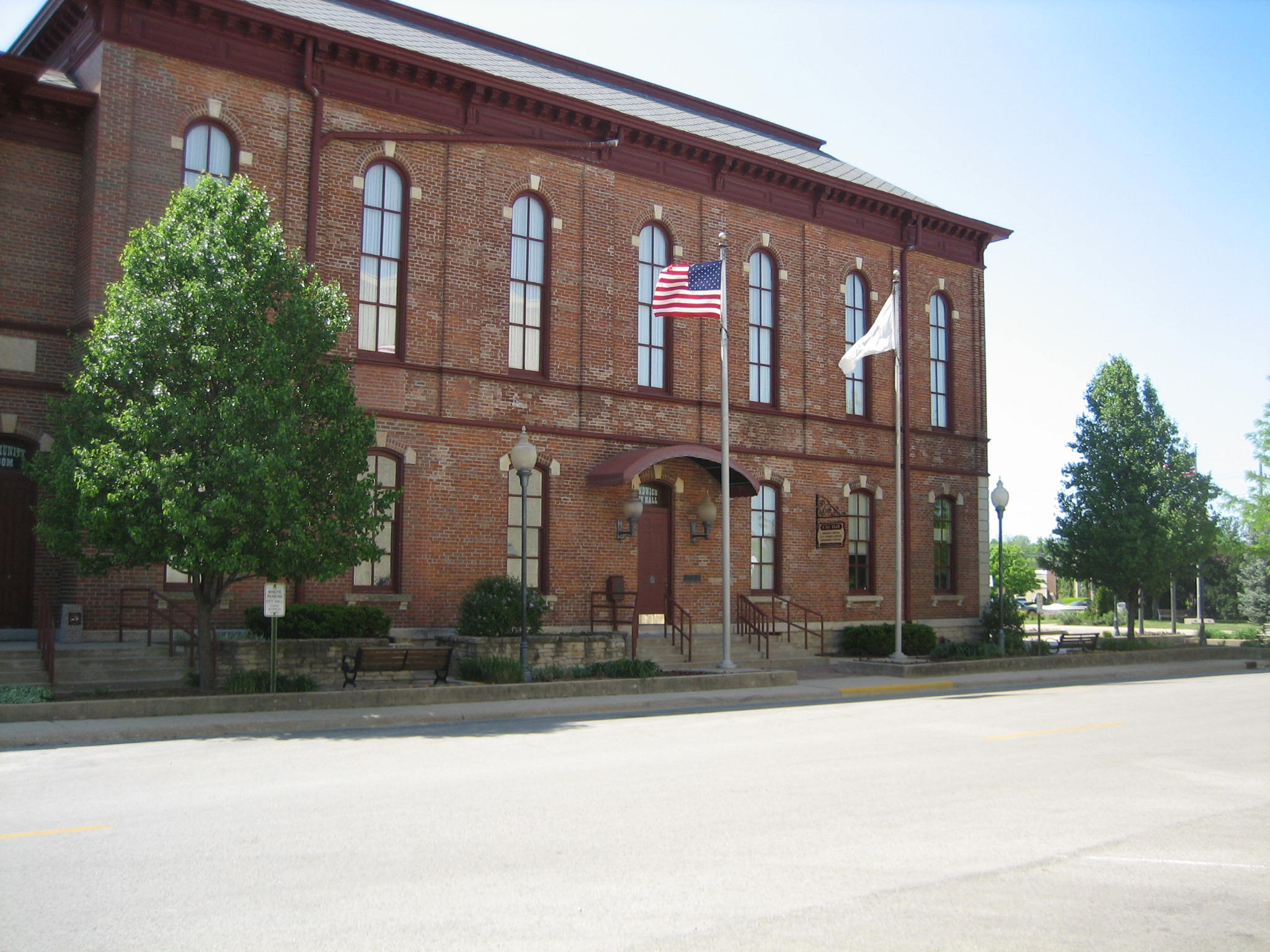 Sandwich City Hall & Opera House, Sandwich, Illinois. National Register of Historic Places.